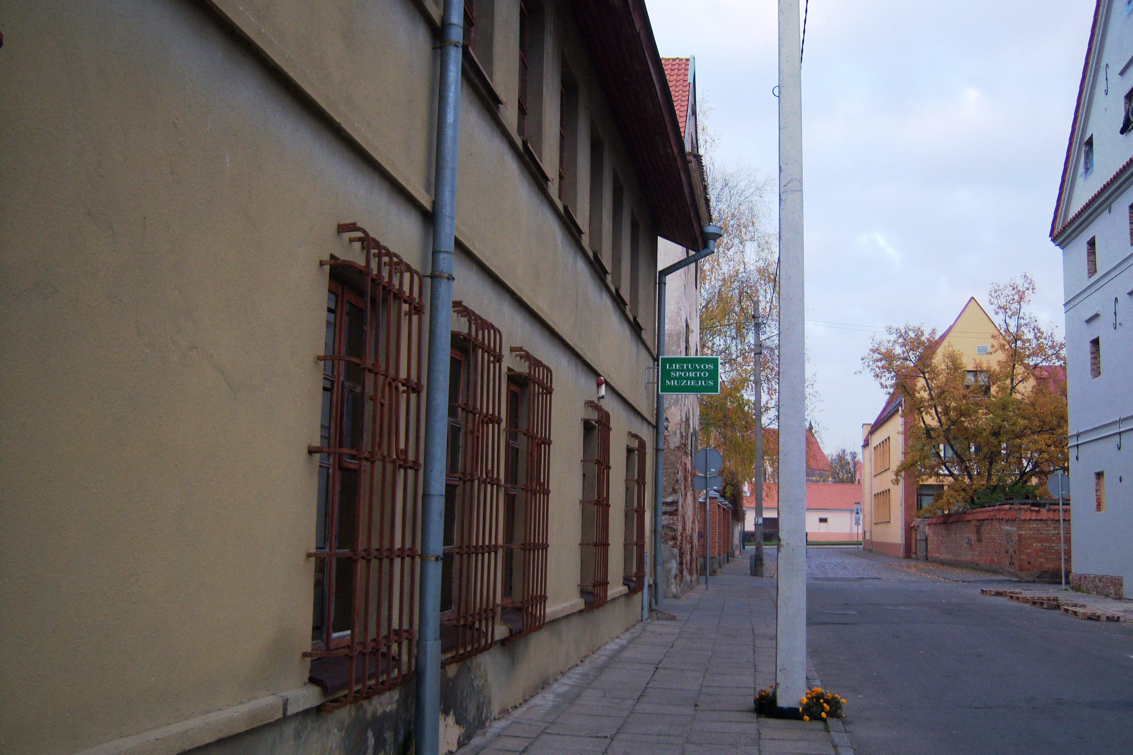 Sports Museum, Kaunas, Lithuania.